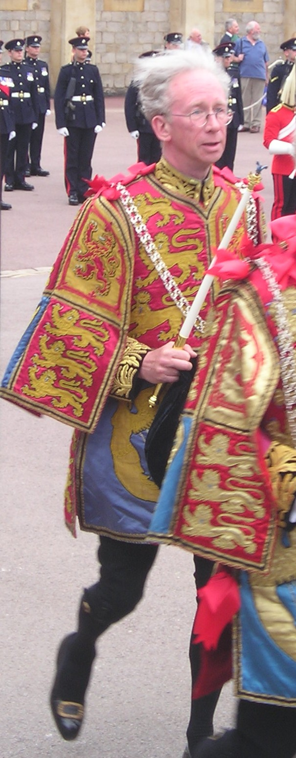 Henry Paston-Bedingfeld, York Herald, after the annual service of the Order of the Garter St George's Chapel, Windsor Castle.